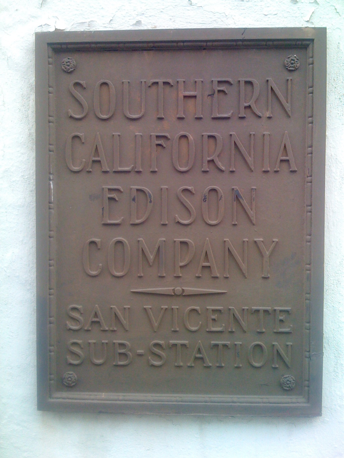 Sign for Southern California Electric, San Vincente sub-station